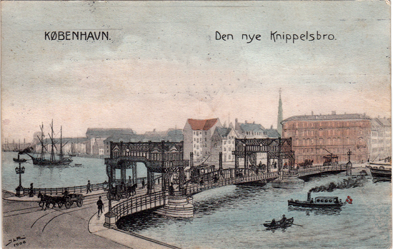 The new Knippelbro in Copenhagen, Denmark. Replcaed by the current one in the 1930s.